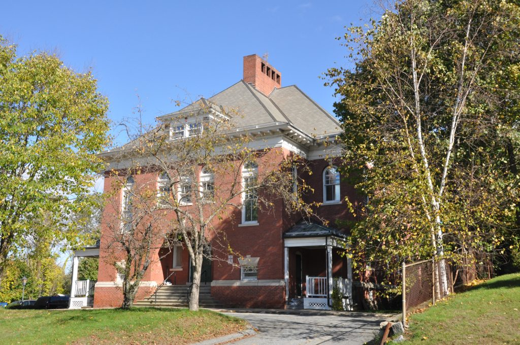 The (former?) Baldwinville Elementary School in Baldwinville, Massachusetts; part of the Baldwinville Village Historic District.